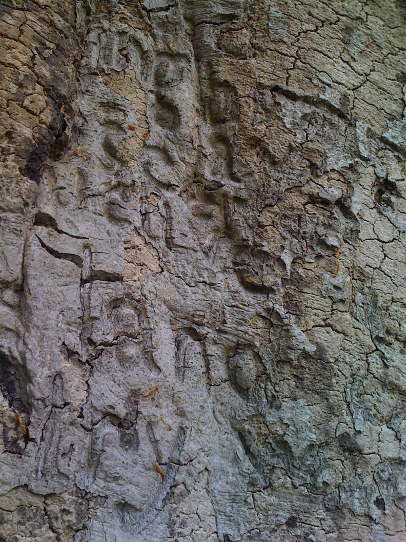 Extract of the poem on The Poem Tree in Oxfordshire, UK